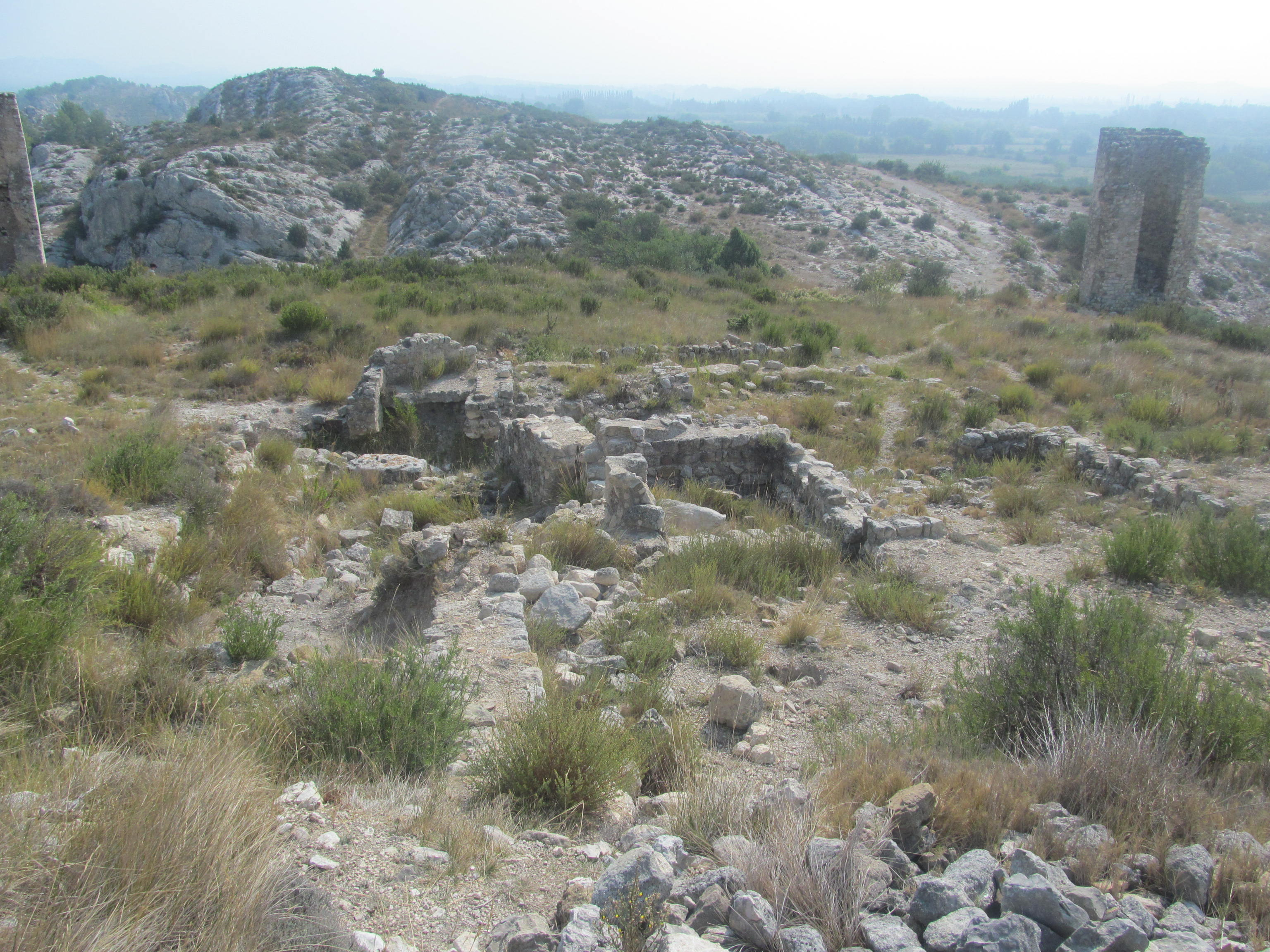 Tours de Castillon - Rests of Middleage Houses